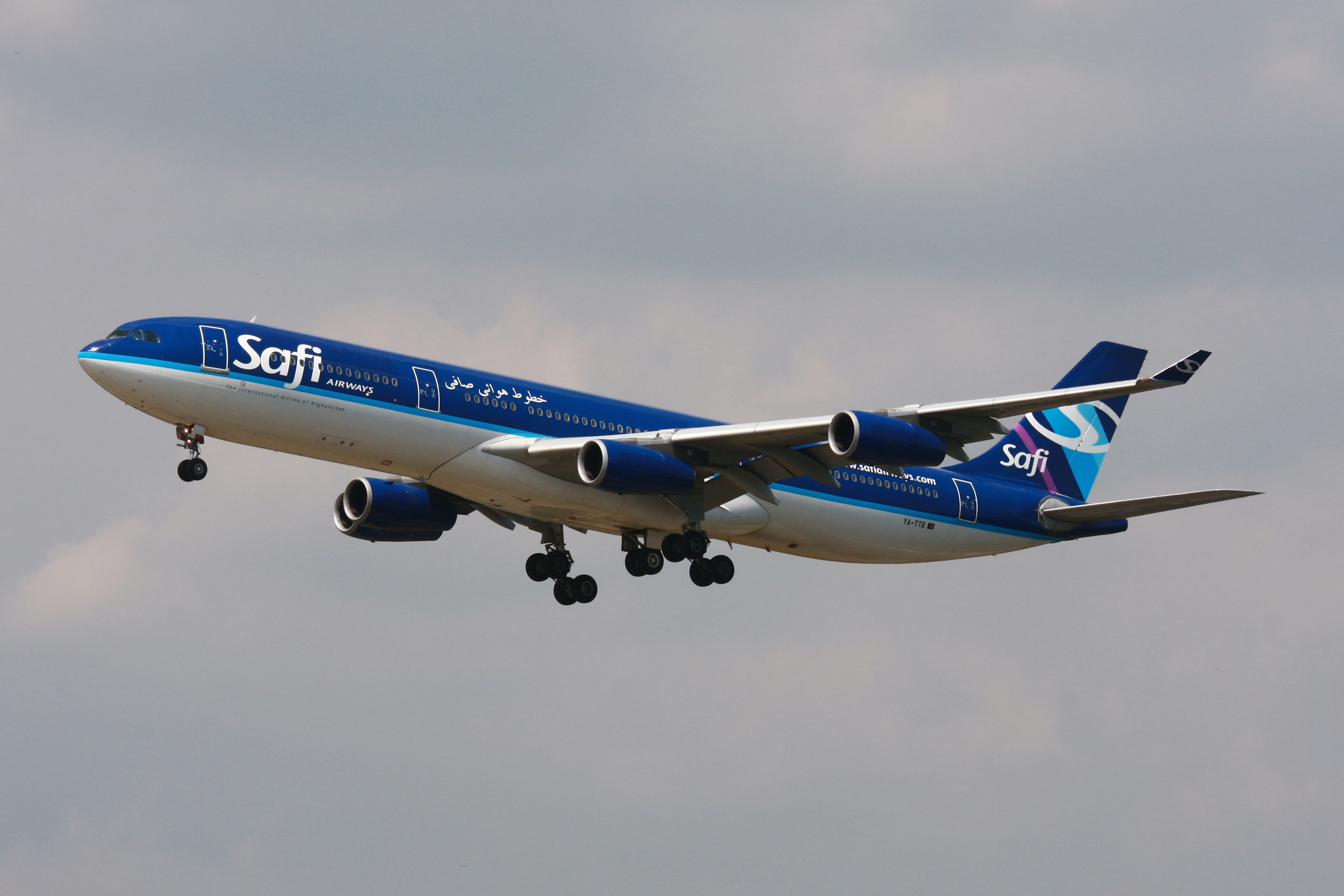 A A340-300 of Safi Airways landing at Frankfurt Airport